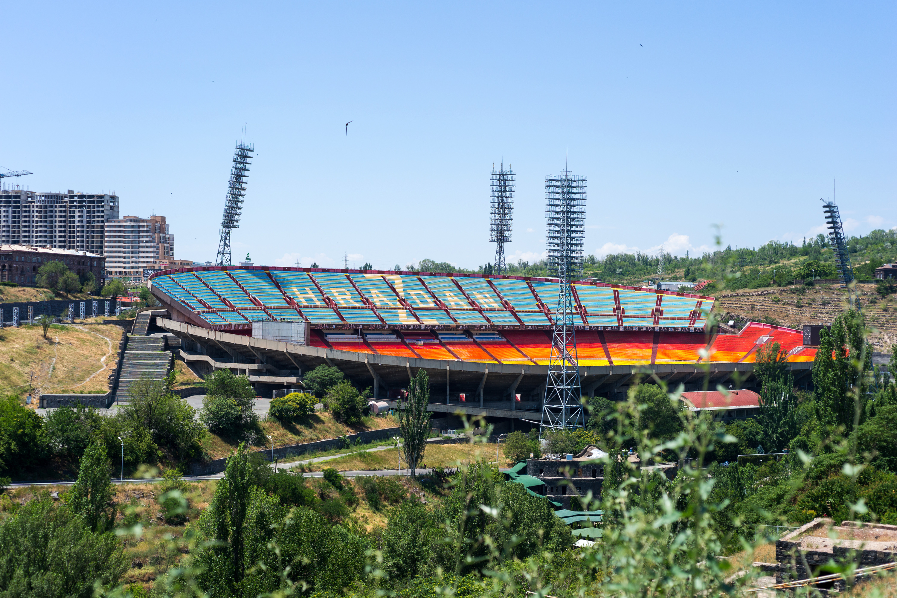 Hrazdan Stadium in 2013, Yerevan, Armenia